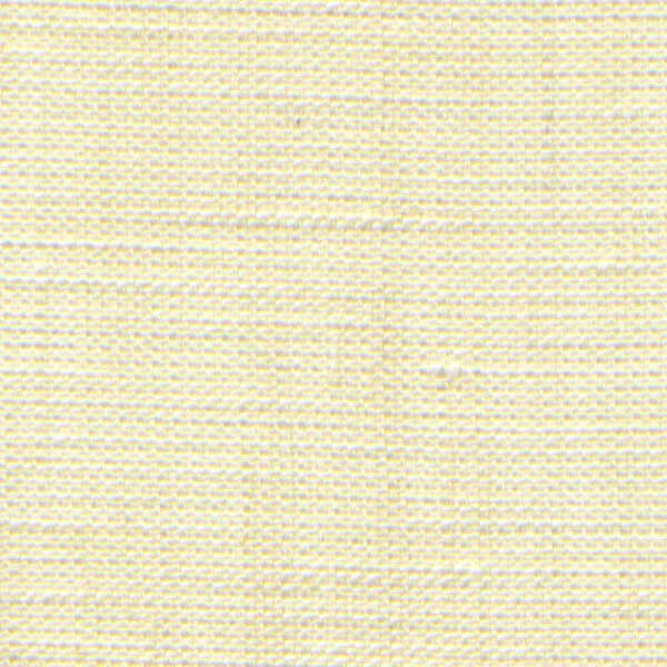 Close-up of the 100 % Hemp fabric